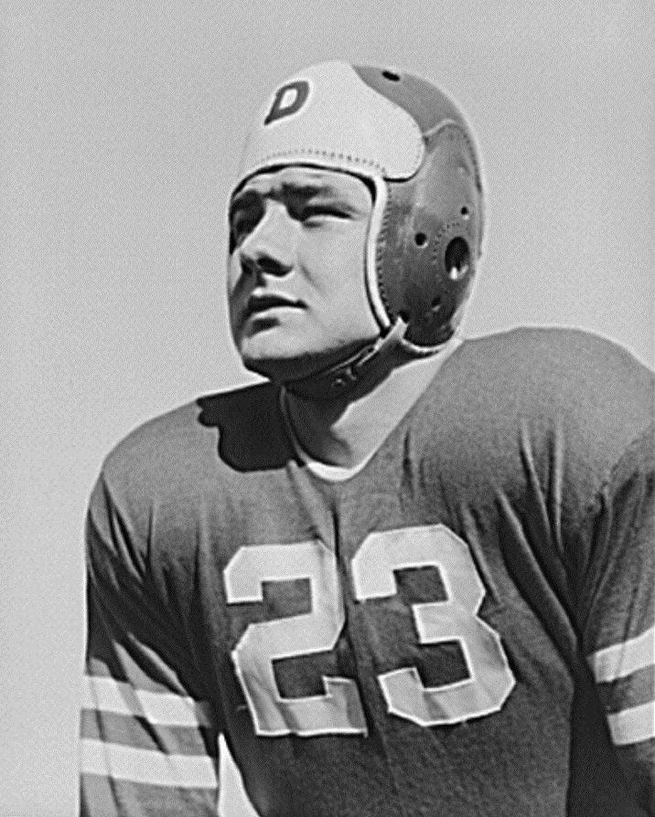 Vince Banonis (erroneously identified as Steve Banois), All-American football center